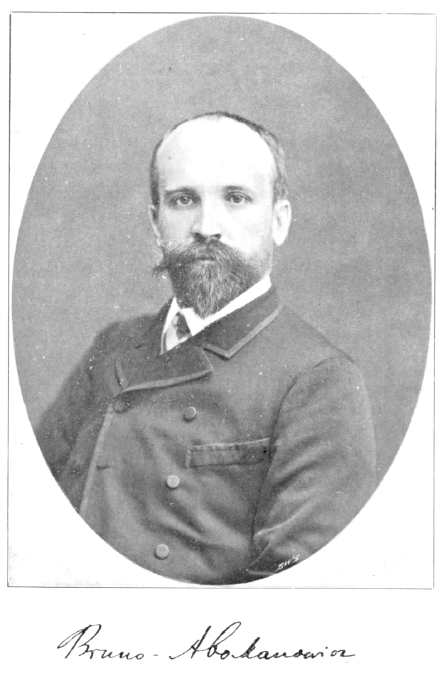 Polish mathematician Bruno Abdank-Abakanowicz (1852-1900)